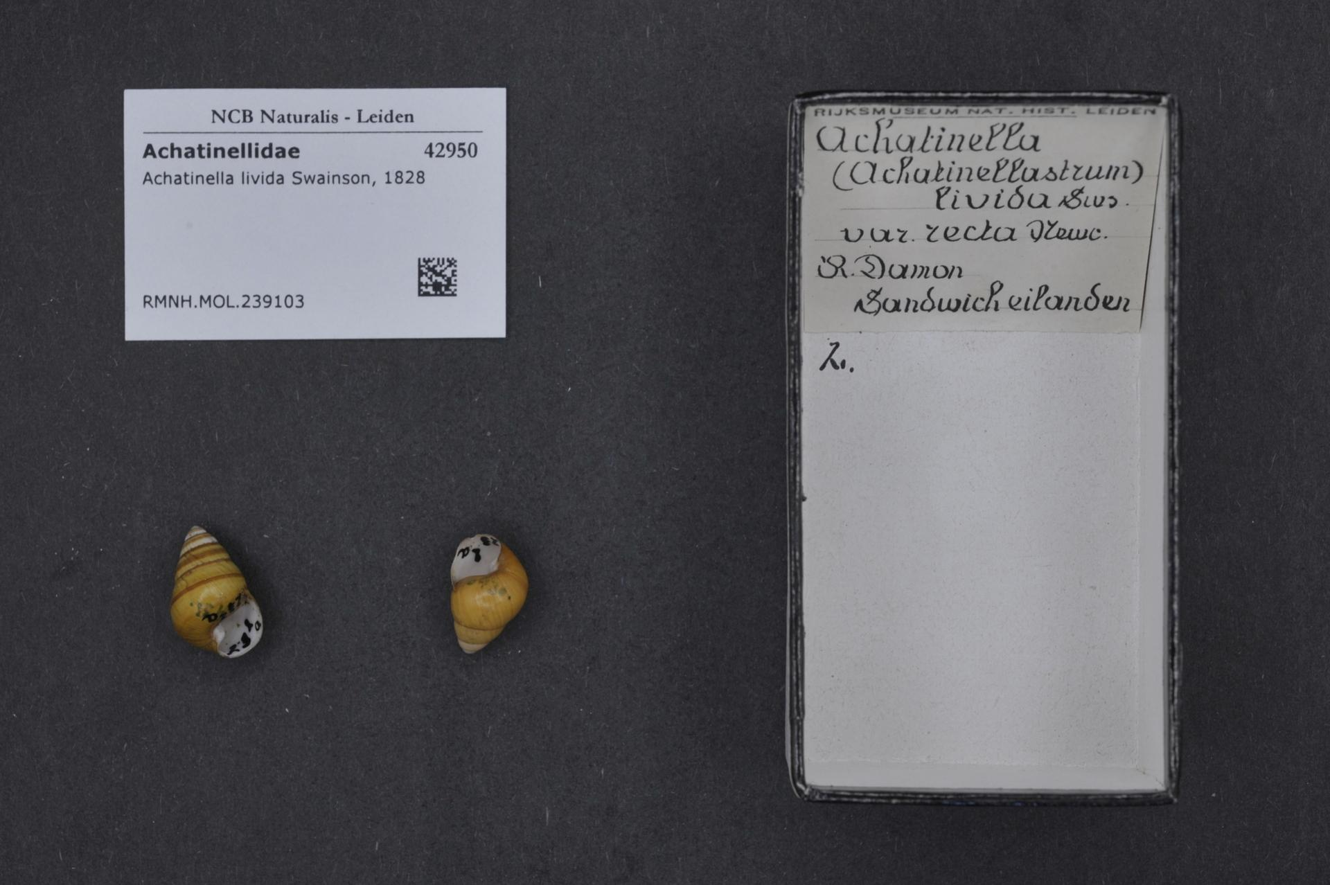 Achatinella livida Swainson, 1828